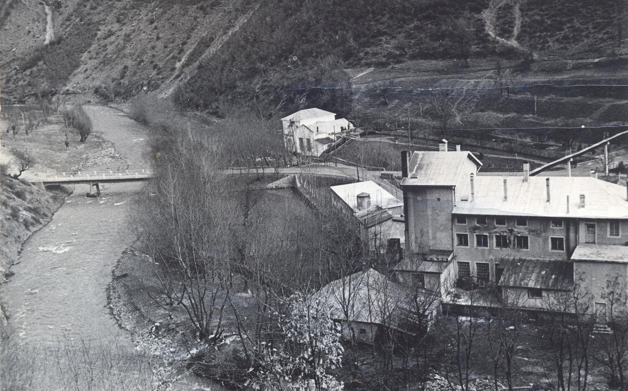 Velizar Peev's Chocolate factories, Svoge, Bulgaria